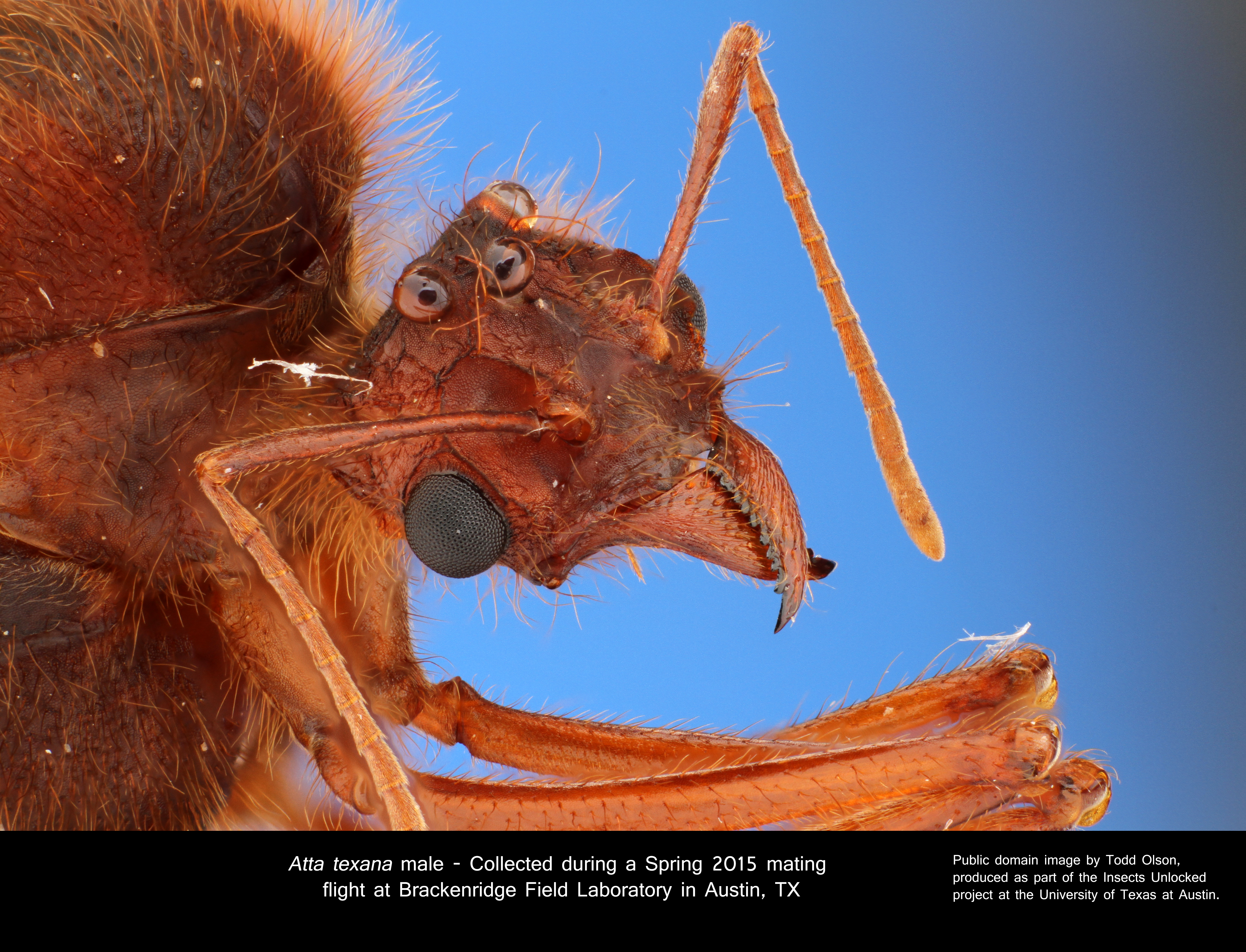 Atta texana male - Collected during a Spring 2015 mating flight at Brackenridge Field Laboratory in Austin, TX